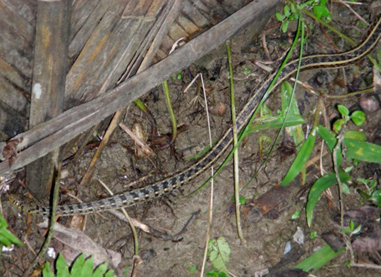 Buff-striped keelback, Amphiesma stolata, Family Colubridinae, Serpentes. Snake released. It heads through the garden fence into the wild. Image taken on 17 Jul 06 in Binnaguri, Duars, northern West Bengal, India by AshLin.